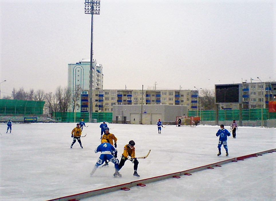 The picture of the match SC Obukhovo-2 - Strela-LII at the SC Obukhovo stadium